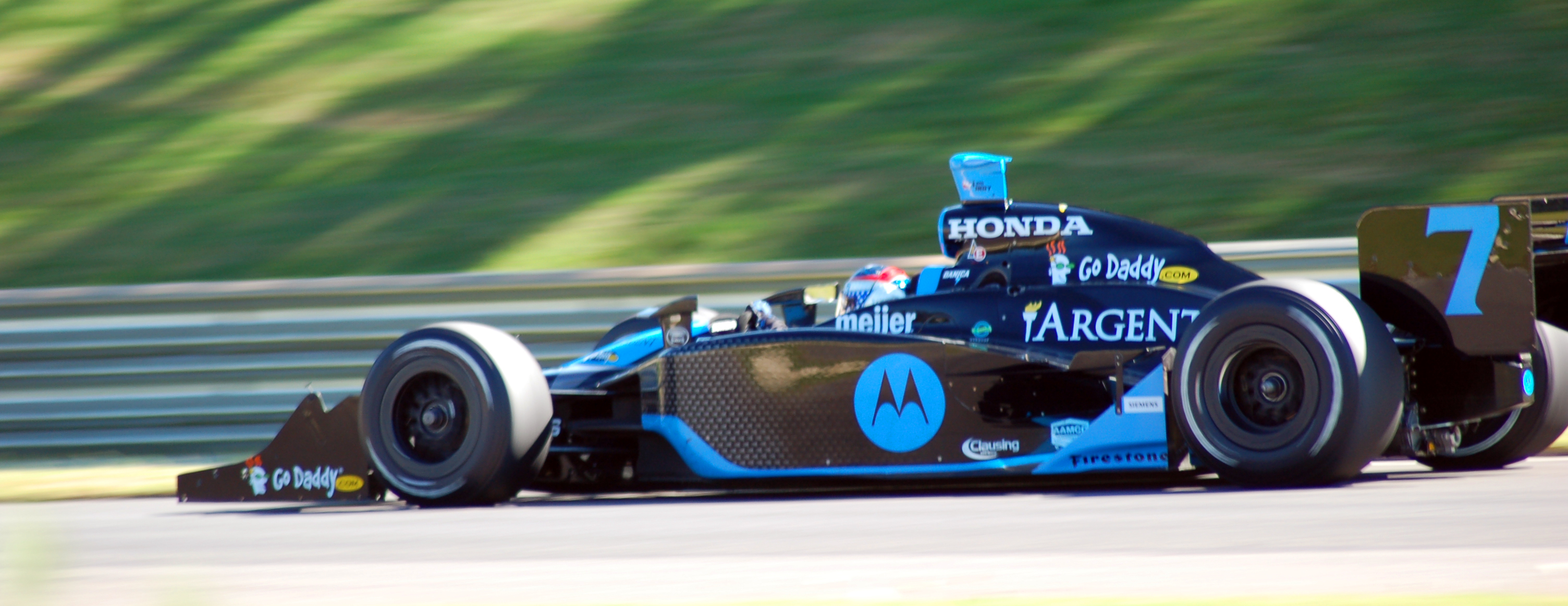 IndyCar Open Test Series at the Barber Motorsports park in Birmingham Alabama.